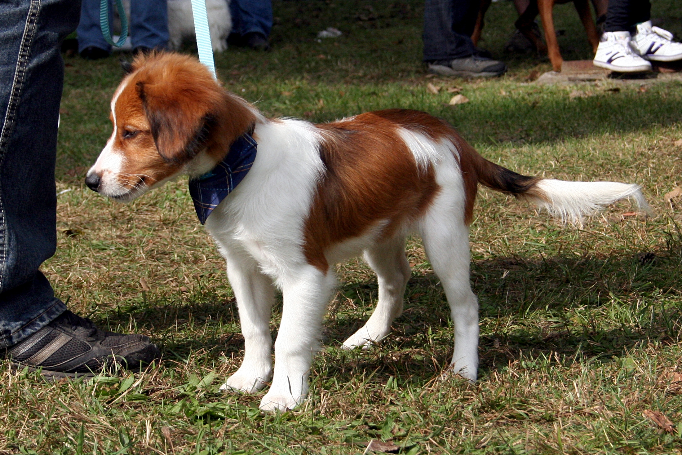 Kooiker Hound puppy during Dogs Show in Rybnik.